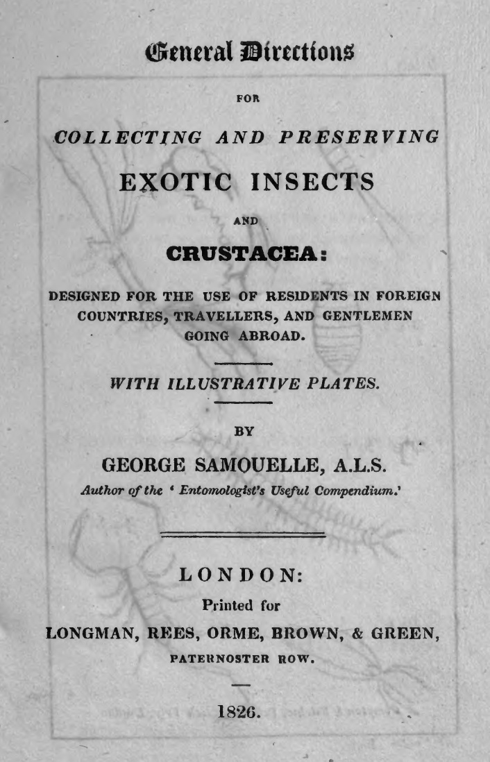 Book cover of guide to collection insects